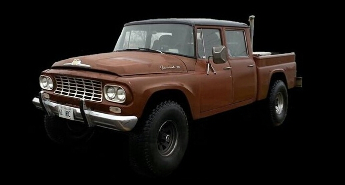 1961 International Travelette C-Series: This was the first American-made 4 door, 4 wheel drive production pickup truck. Notice the side-by-side dual headlights on each side of the concave grill. IHC only produced this front end from 1961-1962 before going to one headlight on each side of a re-designed grill. Owner: Mike Keller